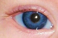 Violet human iris.